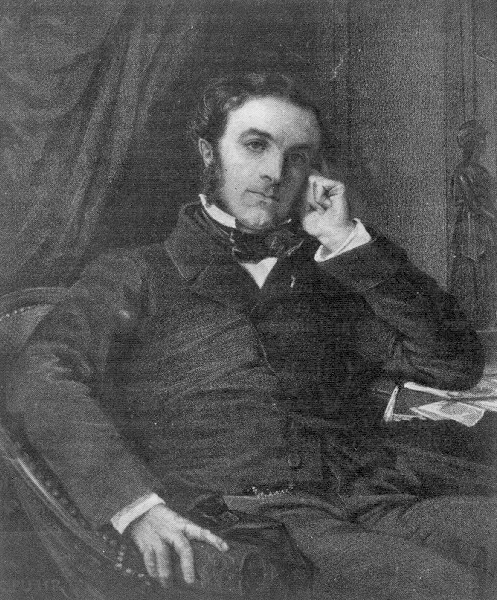 French archaeologist and politician Charles Ernest Beulé (1826-1874). Photographic print of a portrait commissioned by the Institut de France on his admittance to the Académie des Beaux-Arts in 1862.